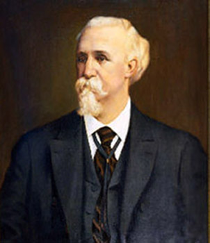 Barnes Compton